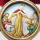 Medaillon der kurpfälzischen bzw. bayerischen Elisabethenordens, Kreuz für Ordensbeamte (vom Medaillon des gewöhnlichen Ordenskreuzes abweichend)